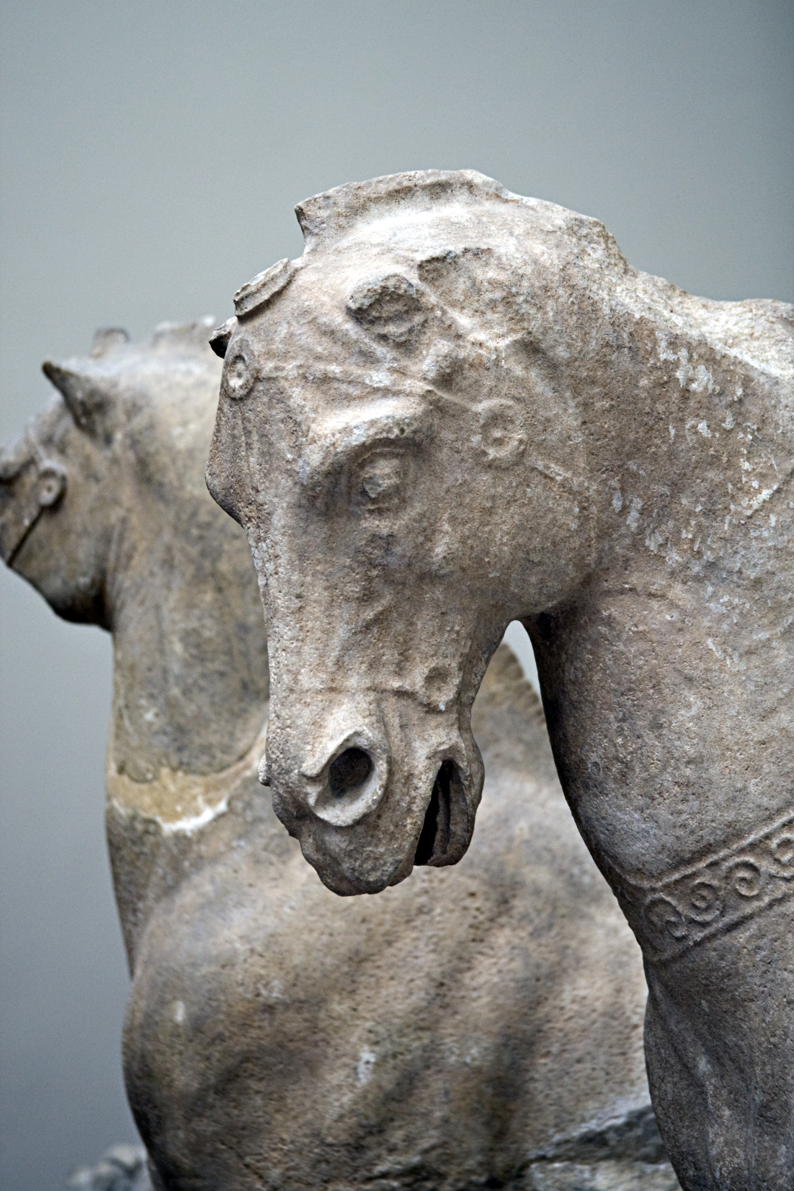 Horse sculptures from the roof of the Great Altar of Pergamon. Now in the Pergamon Museum, Berlin. Marble and made in the second century BC.